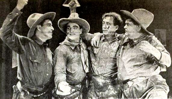 Still from an ad for the American comedy western film Fightin' Mad (1921) with William Desmond (2nd from left) and William Dyer (far right), on page 19 of the June 12, 1921 Film Daily.